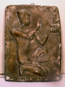 Egypt. Old Kingdom. Bas-relief depicting the Egyptian statuette of Maat. Gypsum. 26,5 x 20 x 3